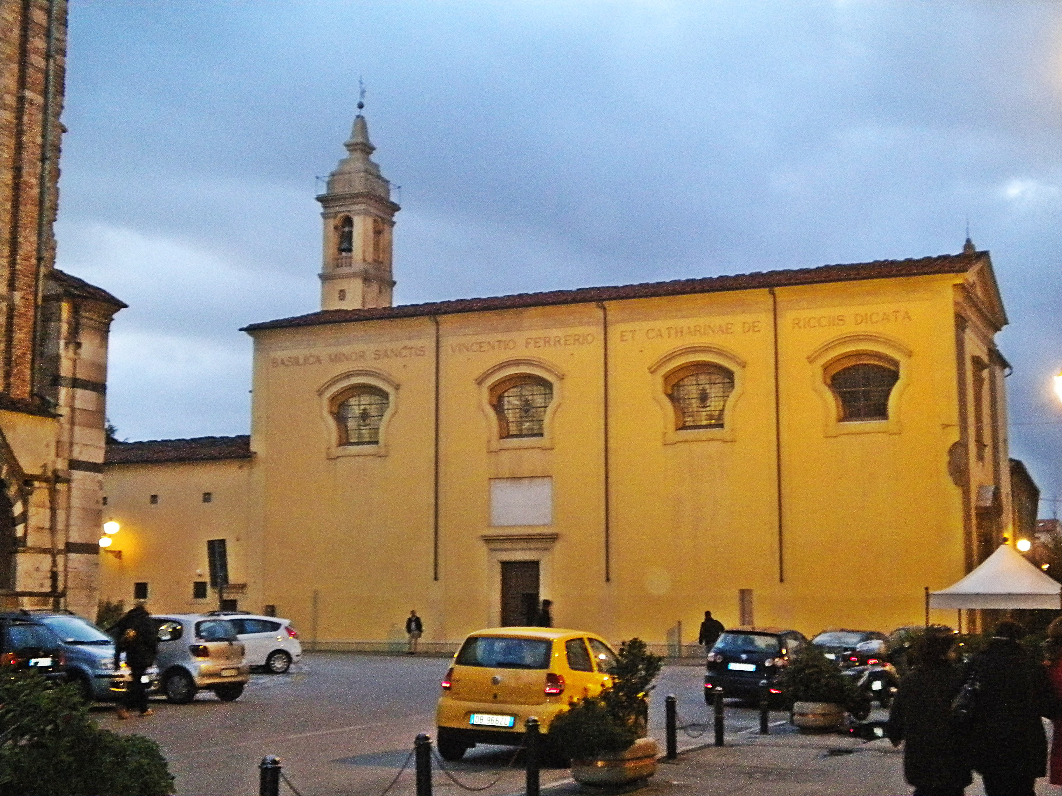 San Vincenzo by night